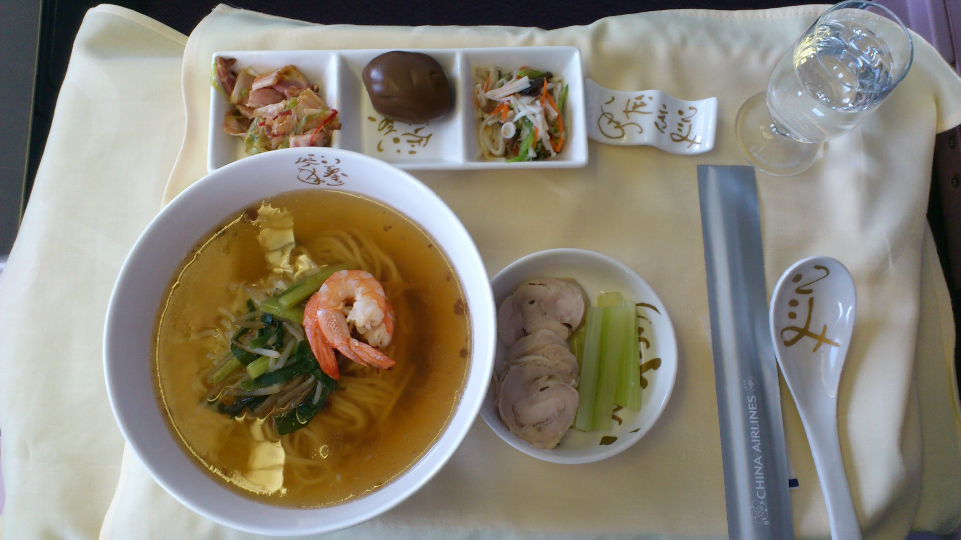 Dan Zai Noodles offered in Business Class on the Taipei Taoyuan (TPE) - Shanghai Pudong Route (PVG)中文（台灣）: 中華航空 臺北桃園-上海浦東 商務艙 擔仔麵